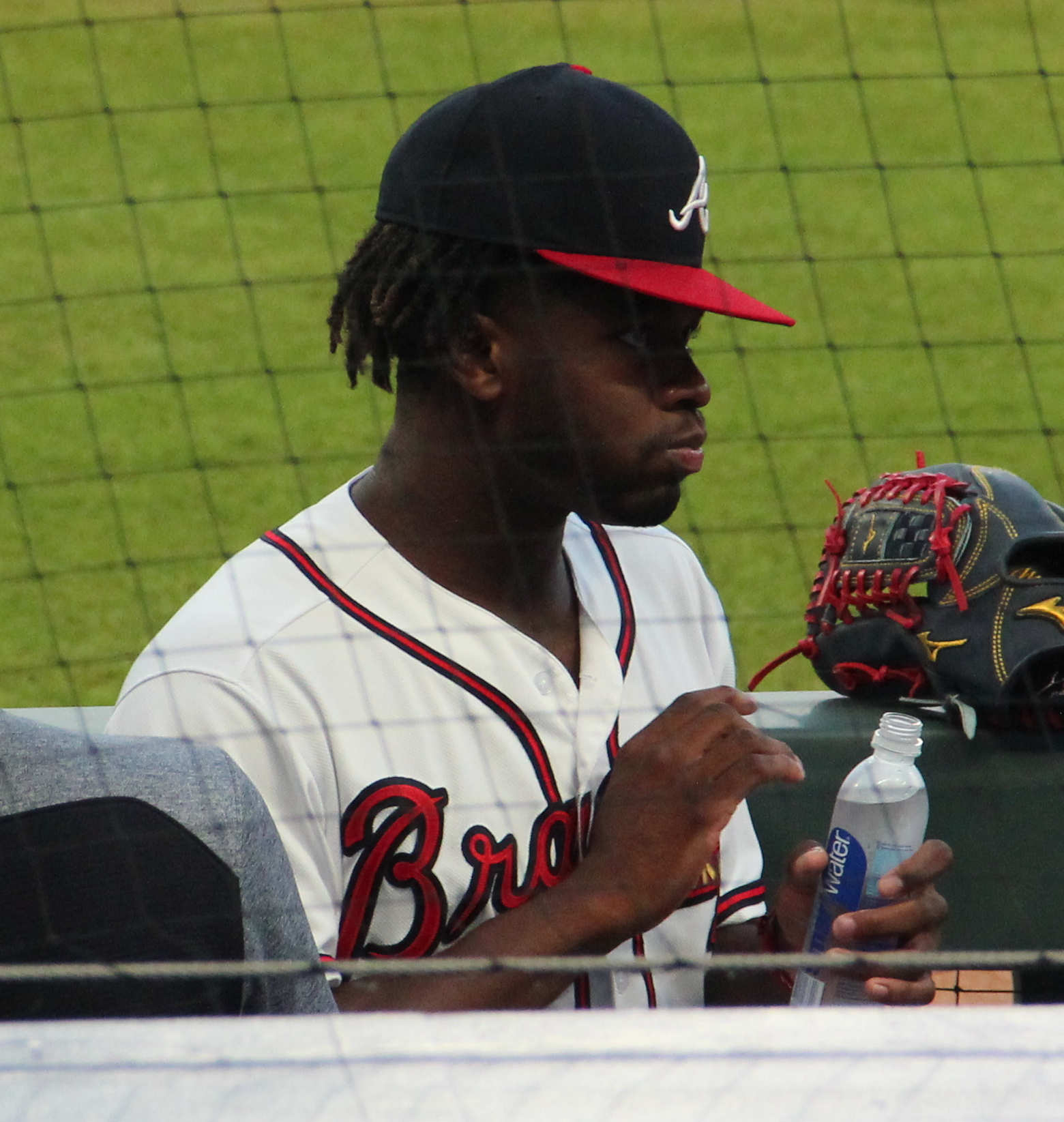 Touki Toussaint in dugout